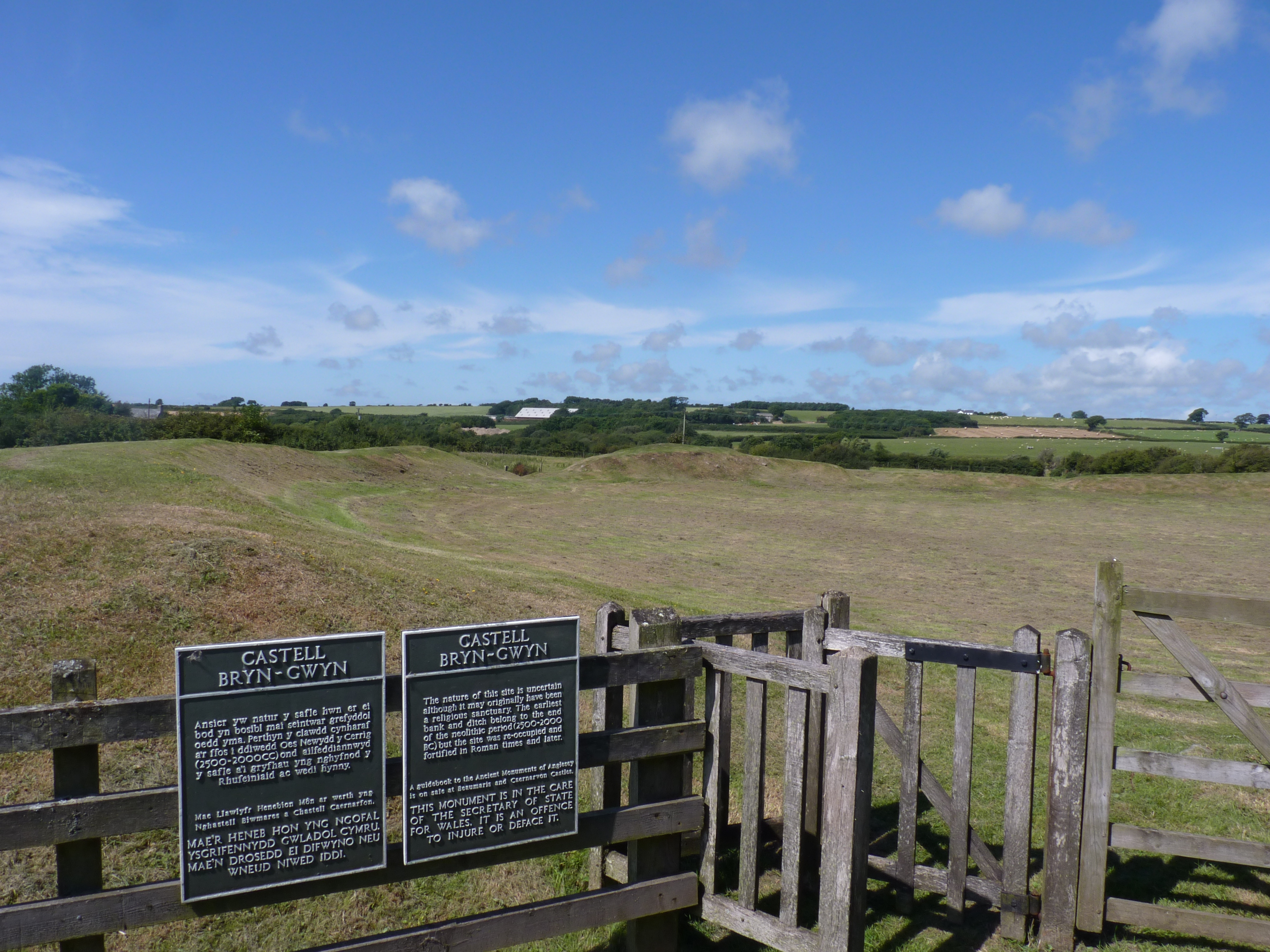 Castell Bryn-gwyn enclosure, Anglesey, a pre-Roman and Roman site cared for by Cadw